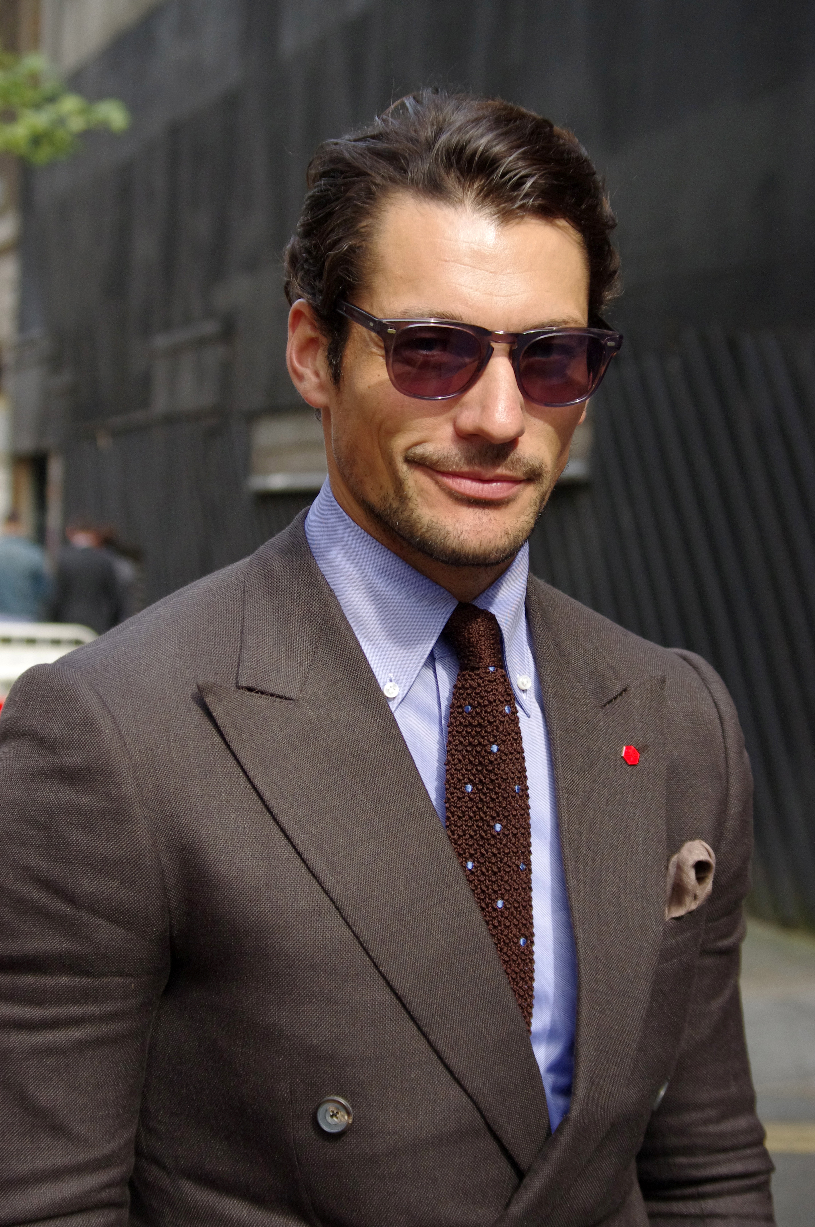 Street Style - Photo of David Gandy, London Collections: Men (June 2013)